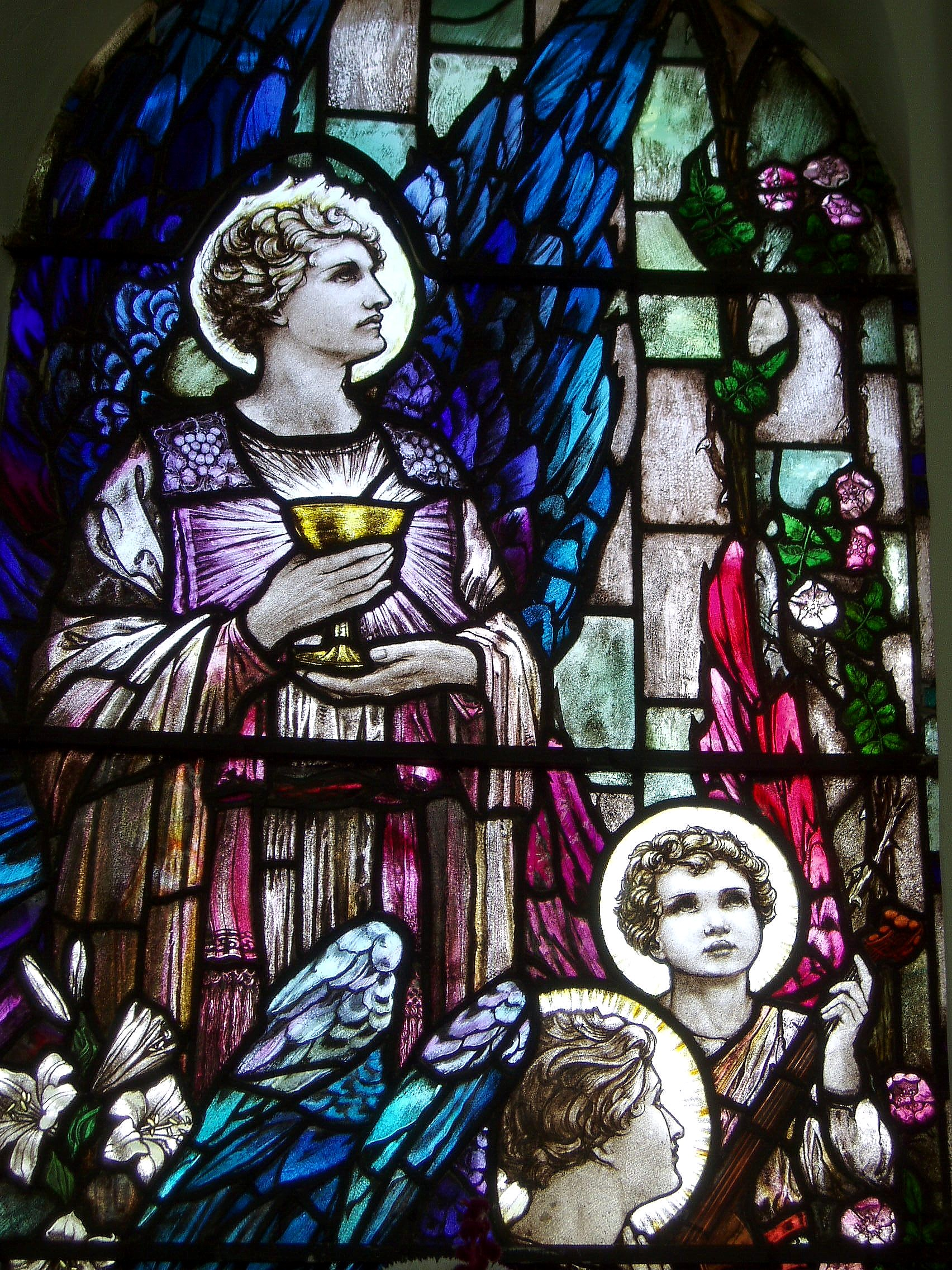 Detail from Theodora Salusbury window at Honiley church